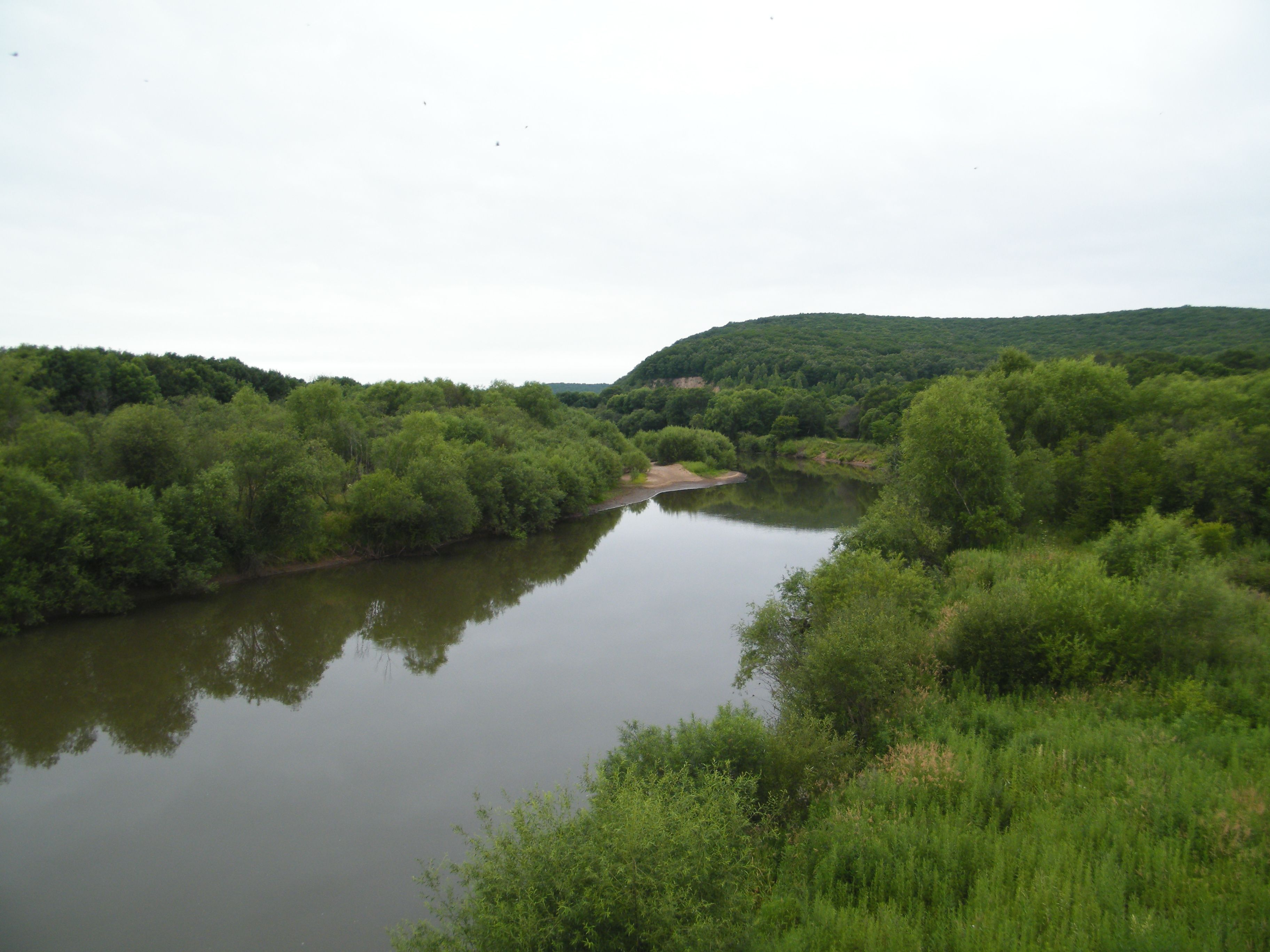 Река Арсеньевка в Яковлевском районе